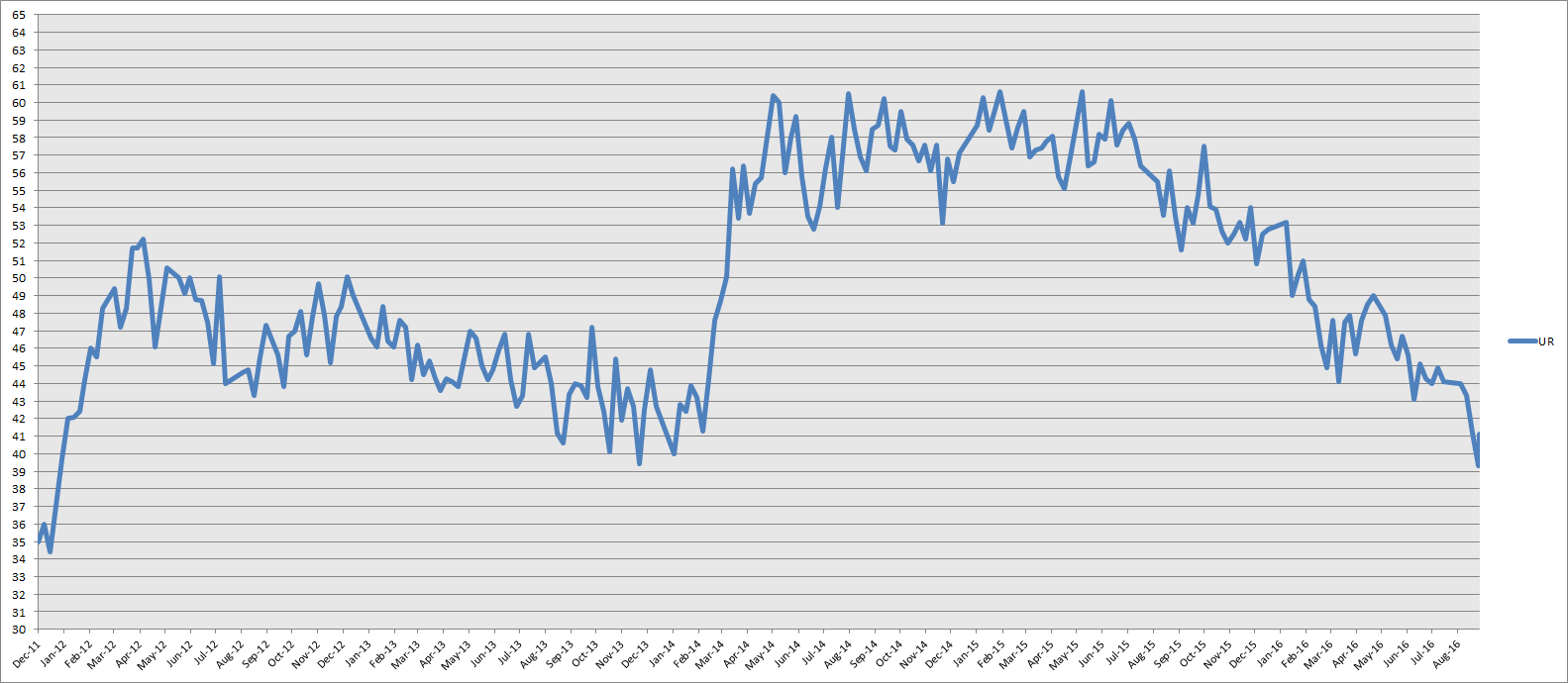 Opinion polls on Russian election,2016, UR